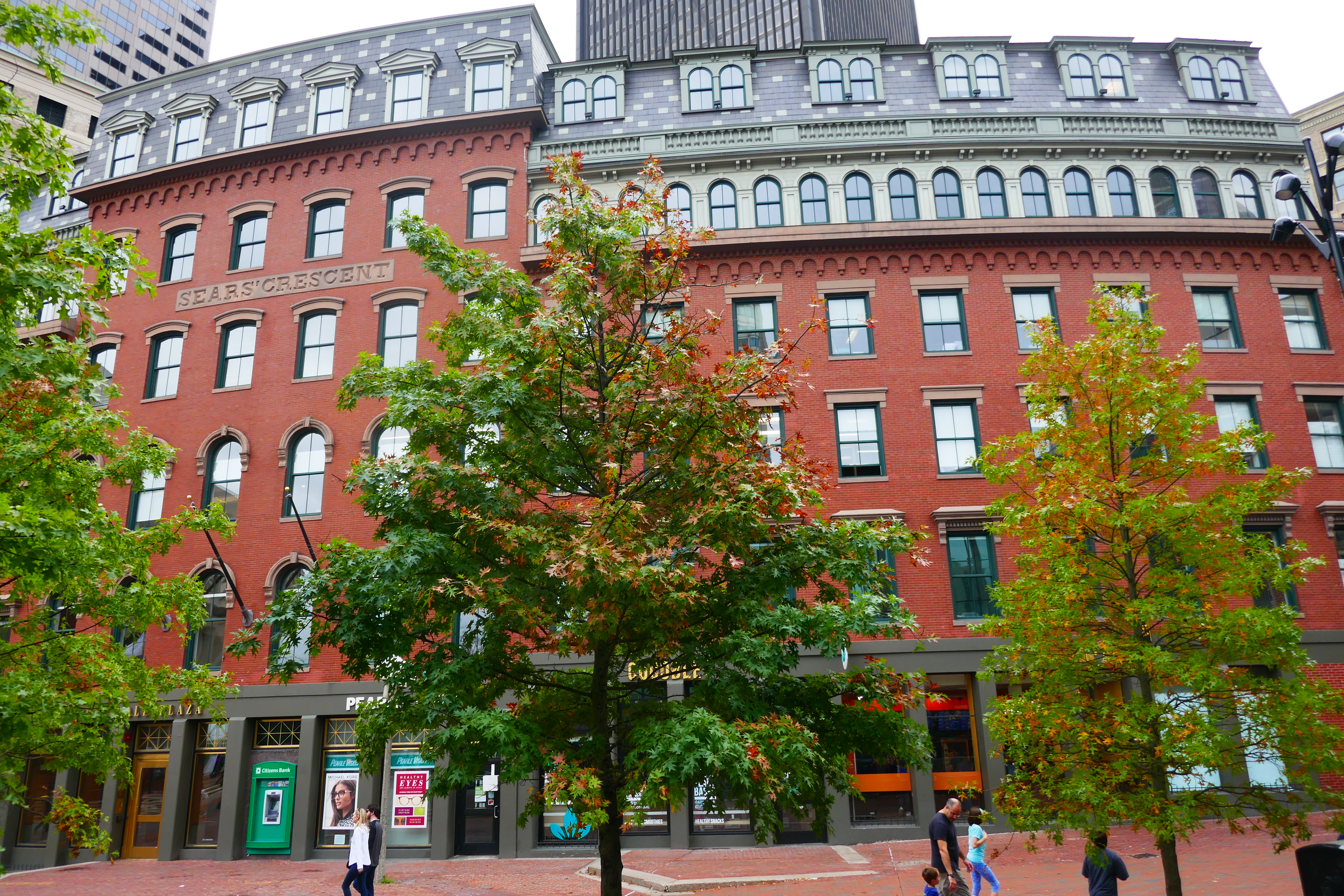 Sears Crescent building adjacent to Boston City Hall Plaza